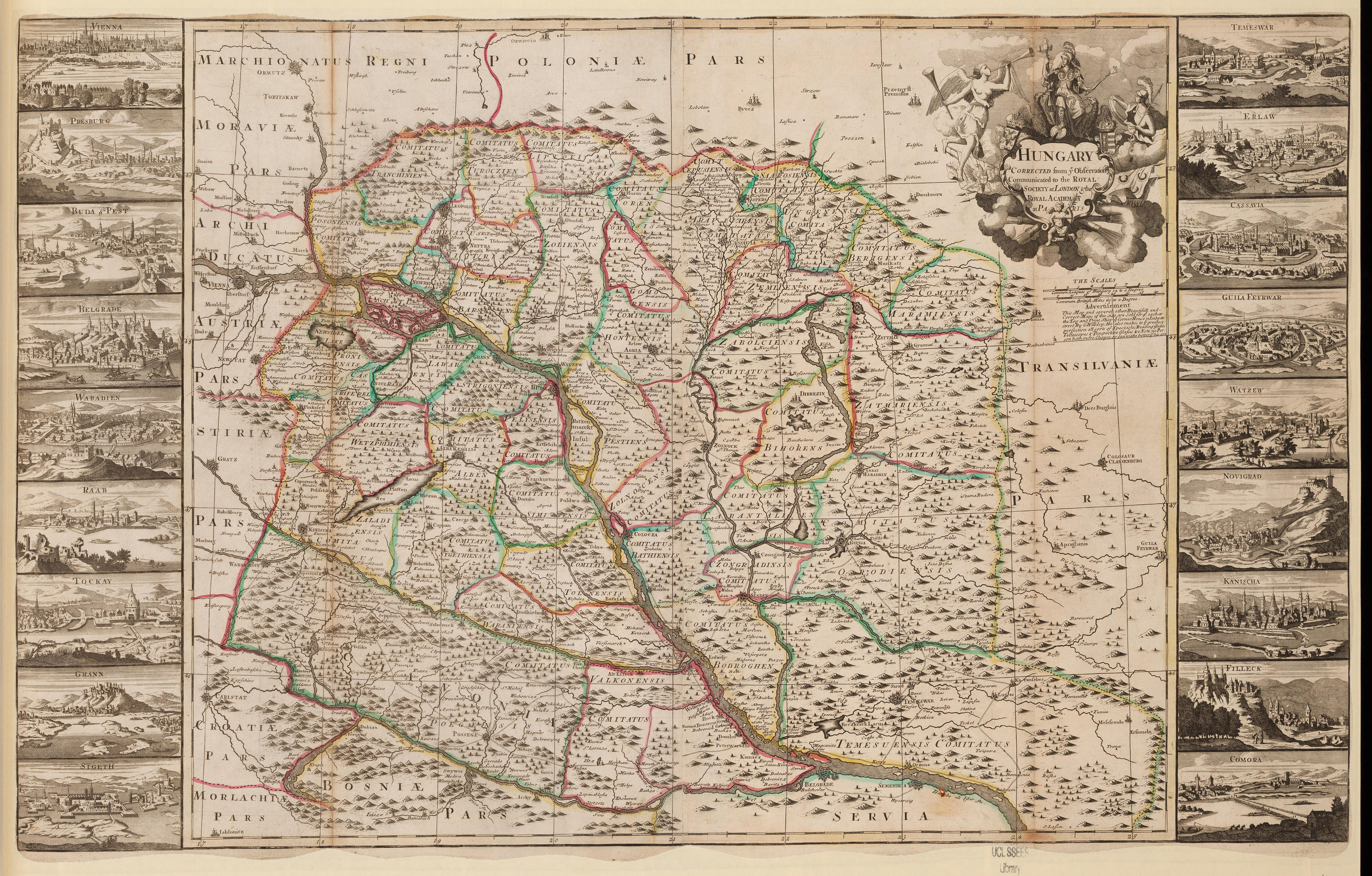 Hungary /corrected from the observations communicated to the Royal Society at London and the Royal Academy at Paris.